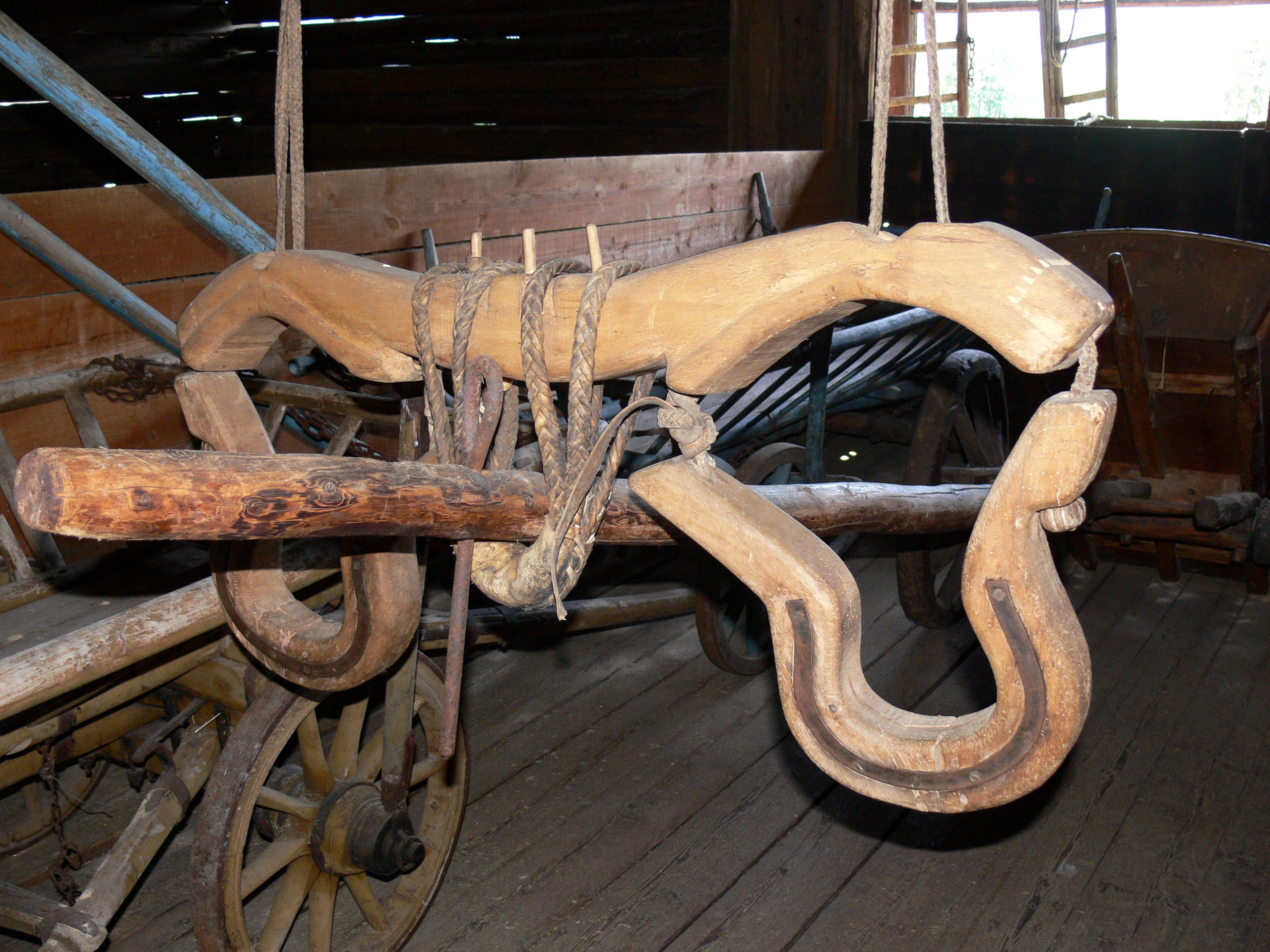 Ethnographic Museum at Dietenheim ( South Tyrol ). So called "Futterhaus" from Ahrntal: Ox yoke.